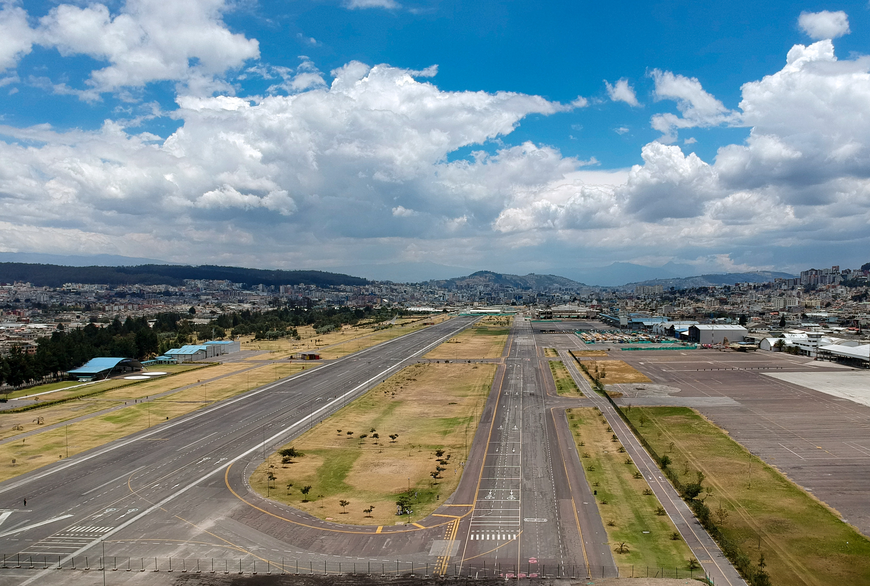 The view from Quito's old airport.